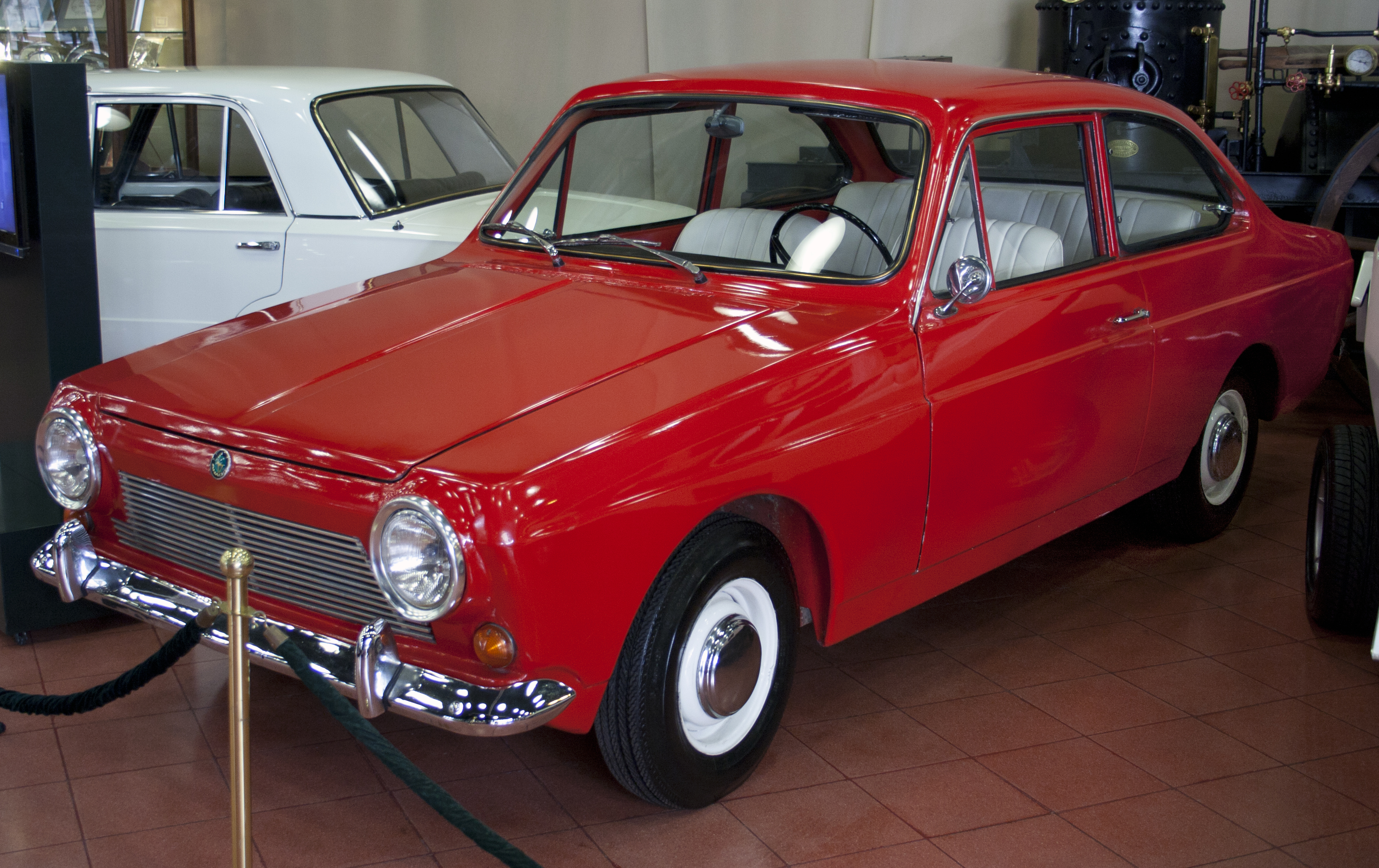 An early Anadol A1 saloon on display in the Rahmi M. Koç Museum of Transportation.